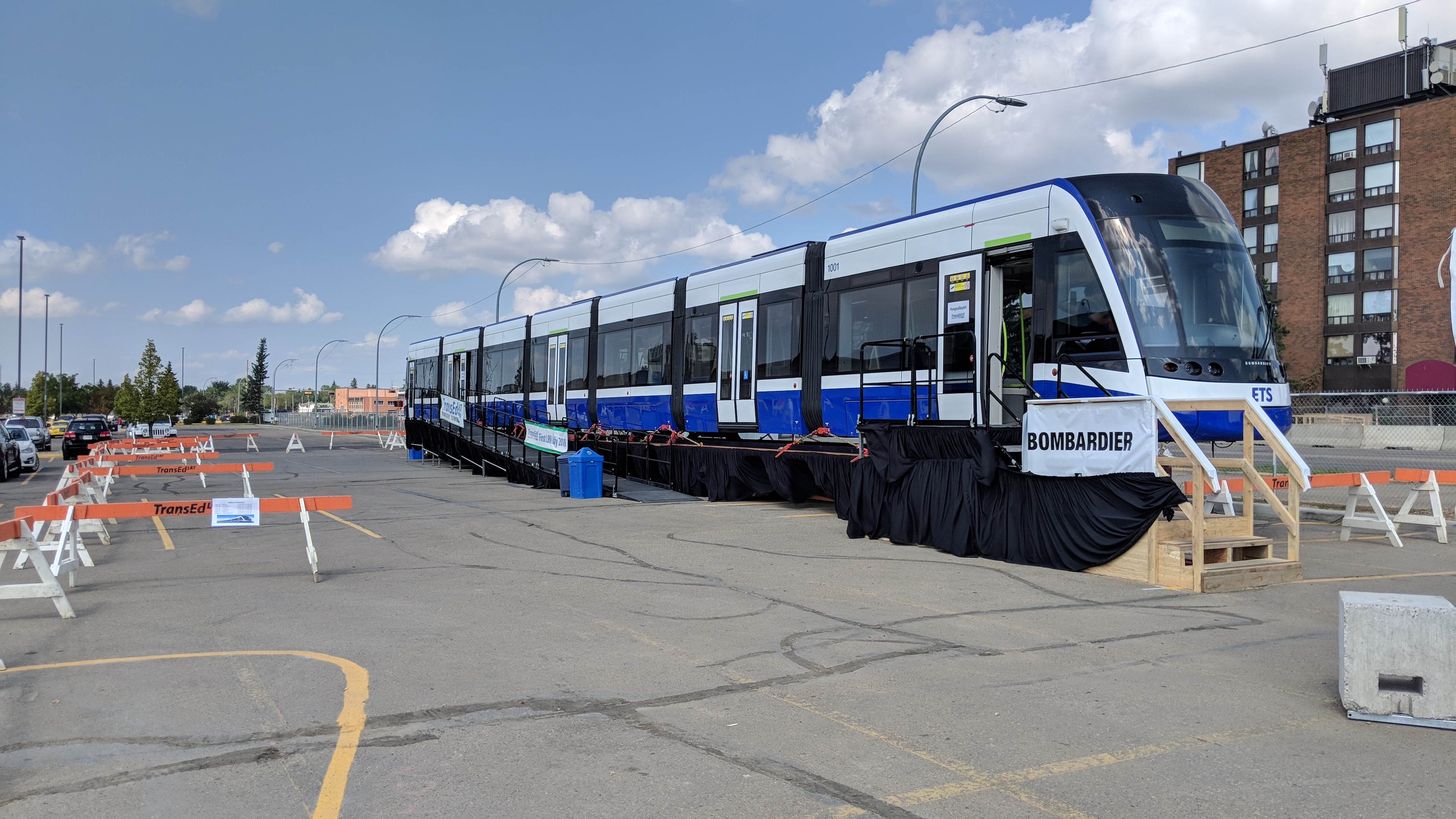 The first Edmonton Valley Line Bombardier Flexity Freedom light rail vehicle (numbered 1001) on display at Bonnie Doon Mall during construction of the line.